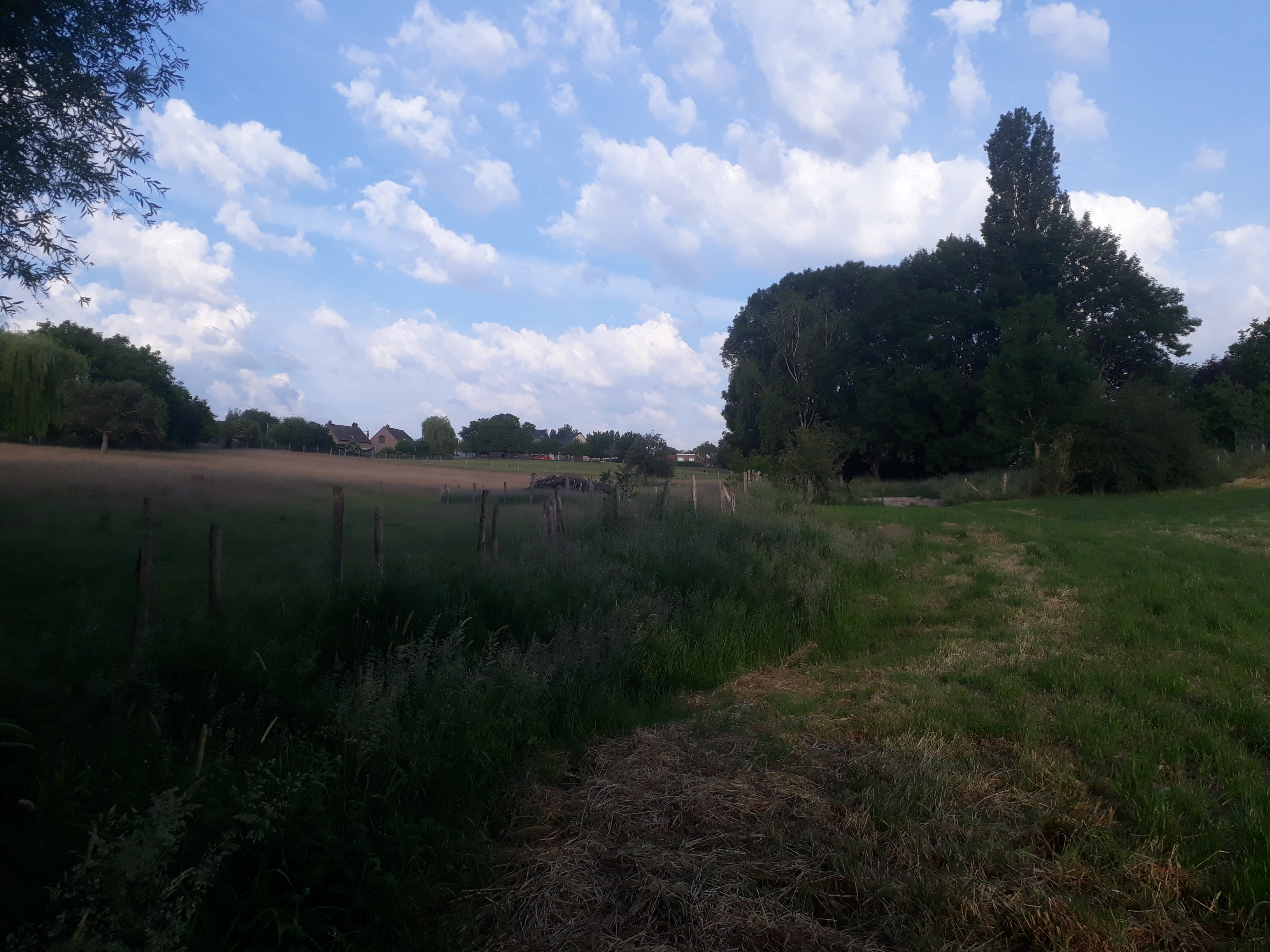 Ås fontinnes2